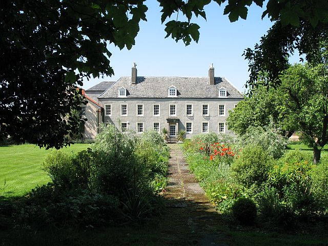 Cockenzie House Cockenzie House was here before the battle of Prestonpans. It was a nursing home until closure in 2008. It is at time of writing on the market for £3.25M. The gardens were open during the Three Harbours Festival.